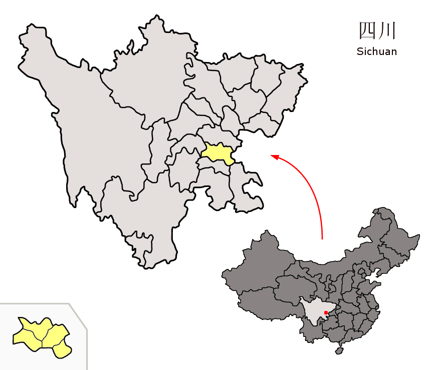 Location of Neijiang Prefecture (yellow) within Sichuan province of China Map drawn in october 2007 using various sources, mainly : Sichuan province administrative regions GIS data: 1:1M, County level, 1990 Sichuan Counties map from